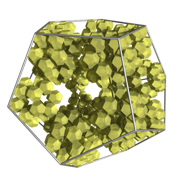 Dodeacaedron fractal. Scale factor: 1/(2+phi), replication factor: 20